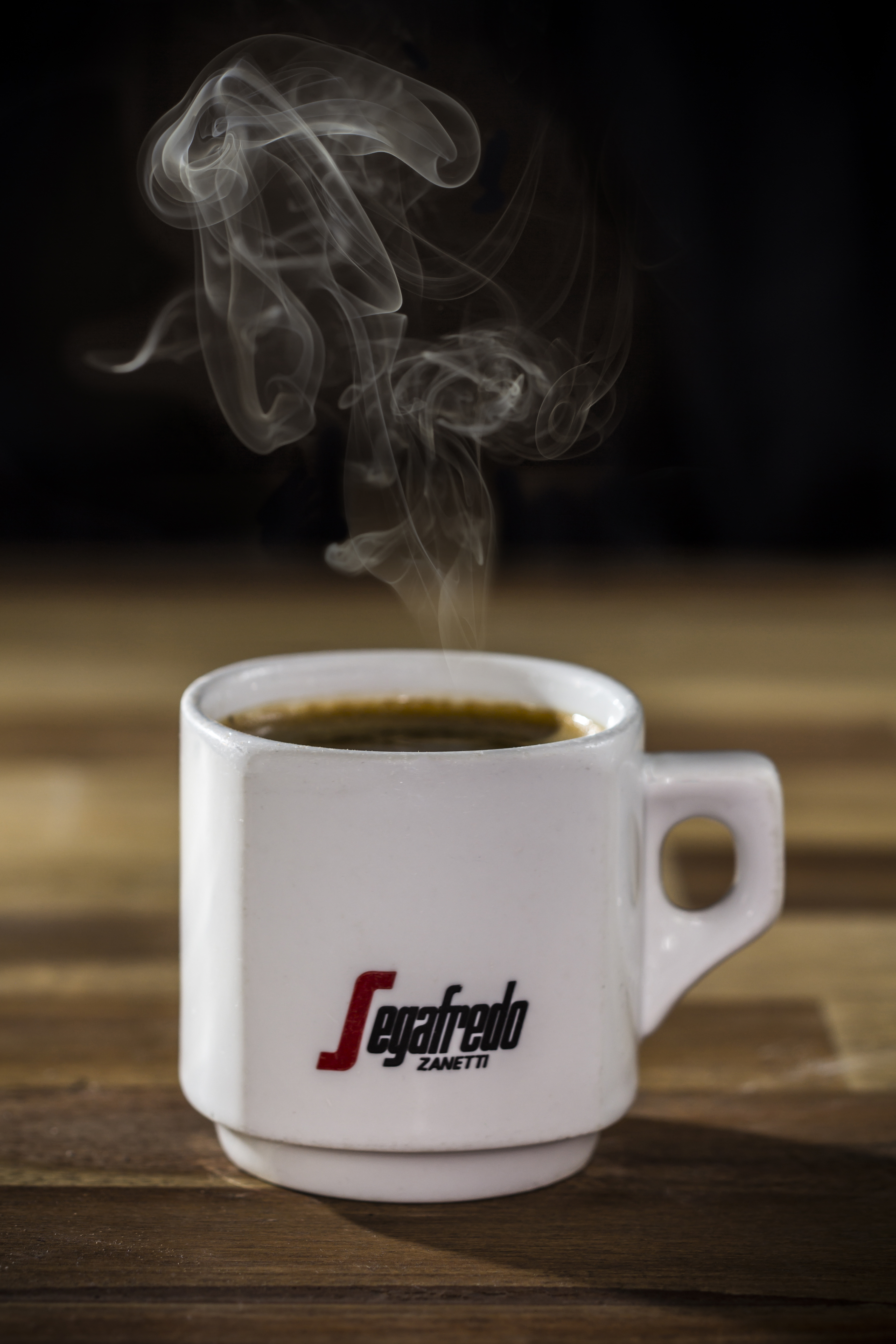 Coffee / Kávé